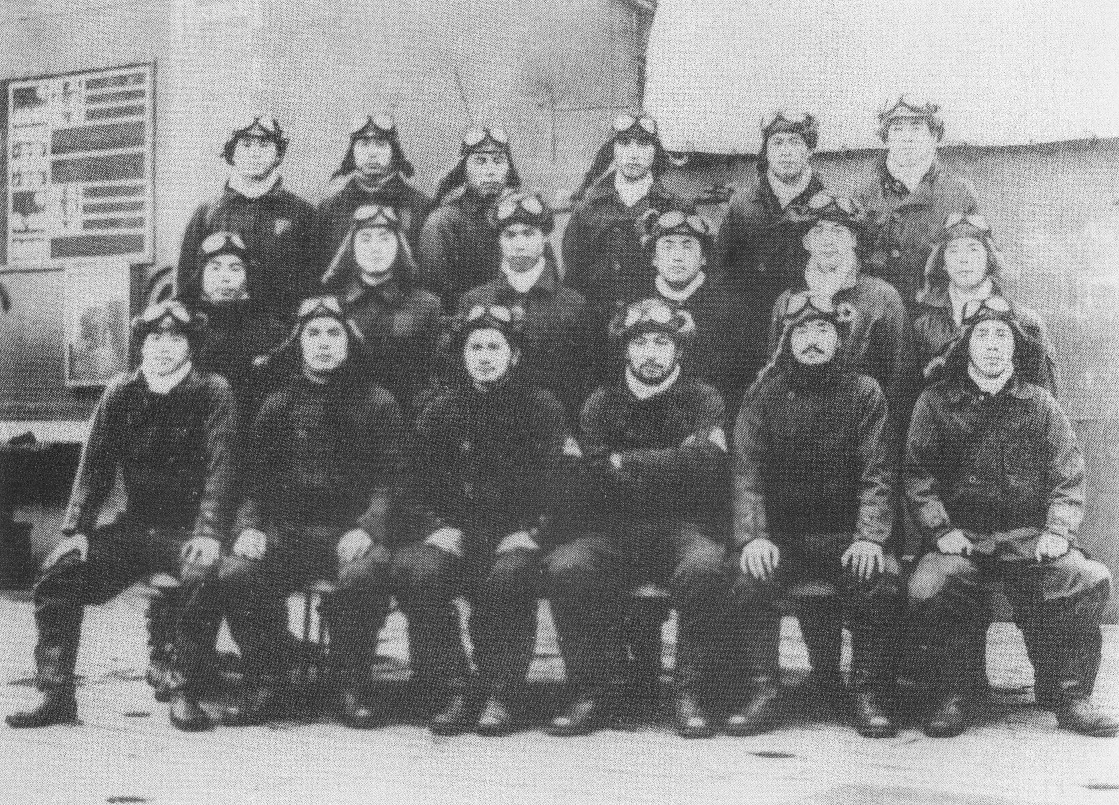 Imperial Japanese Navy aircraft carrier Zuikaku dive bomber pilots pose for a group photo before the attack on Pearl Harbor, Hawaii in December 1941. Photo likely taken aboard ship the day before the attack, on December 6, 1941. Front row, from the left: second person, Masataka Fukunaga; third person, Reijiro Otsuka; fourth person, Tamotsu Ema; fifth person, Tohichi Azuma. Second row, fourth person from the left is Kenji Hori.